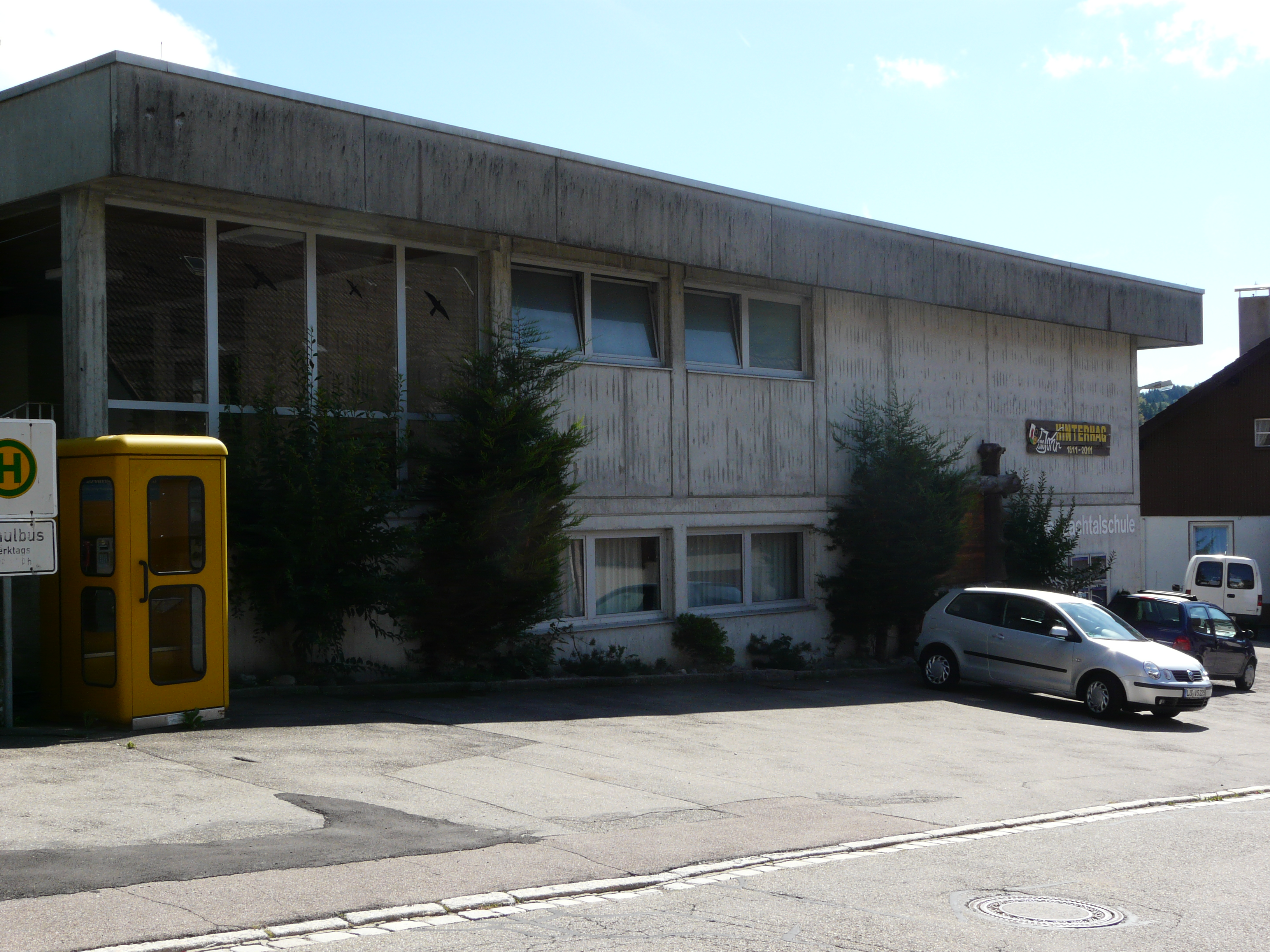 School building in Häg